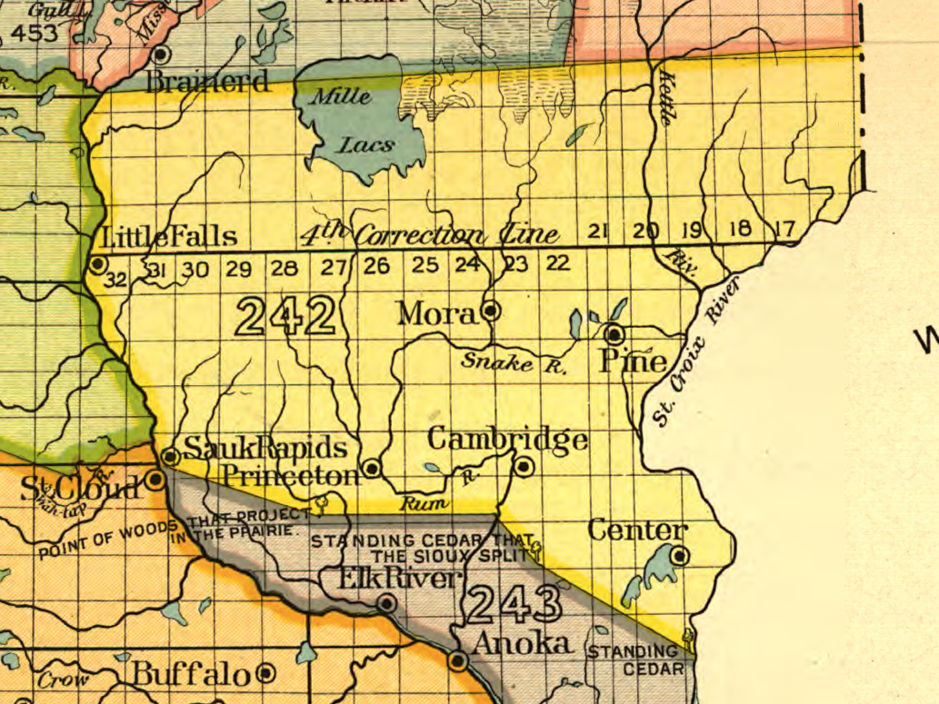 Details from 18th Annual Report, Plate 104—Minnesota, 1: Map of the Minnesota portion of Treaty_of_St._Peters#1837_Treaty_of_St._Peters. The Minnesota portion is designated as 242 on the map.